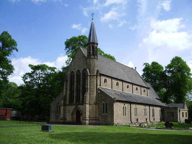 St Saviour's parish church, Ringley, Greater Manchester, seen from the west